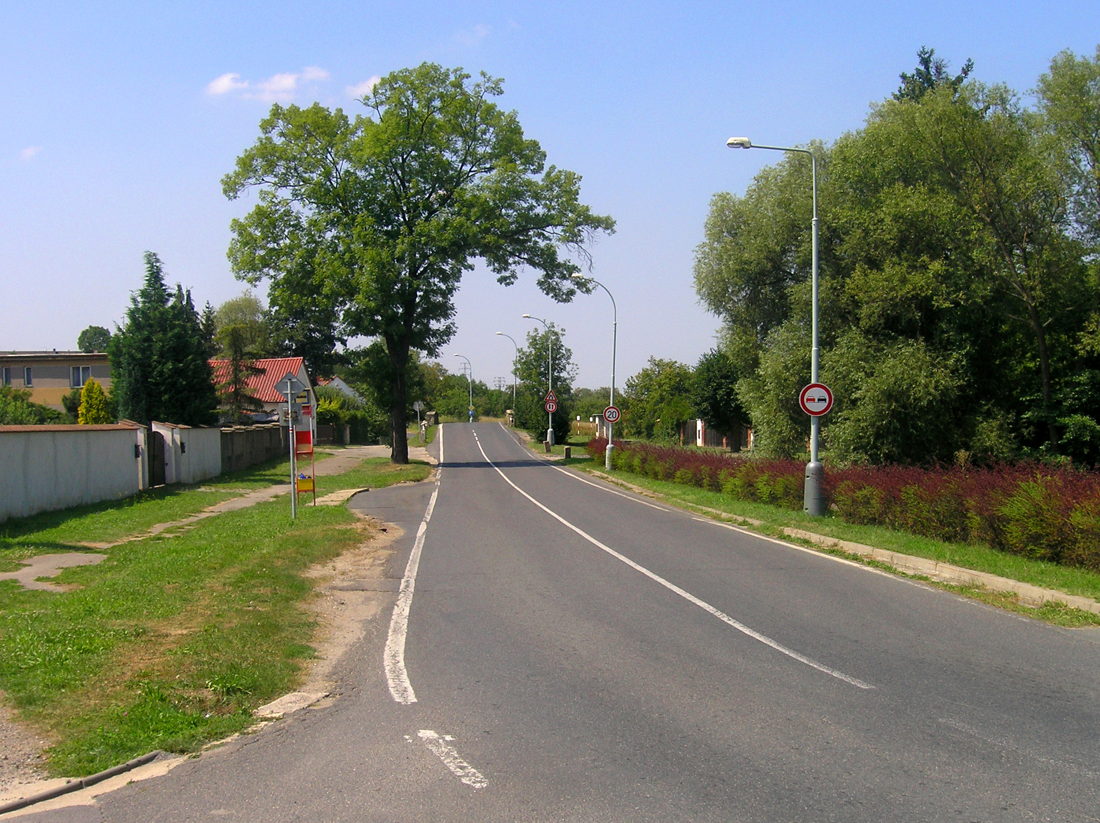 K Dubči street in Koloděje, Prague